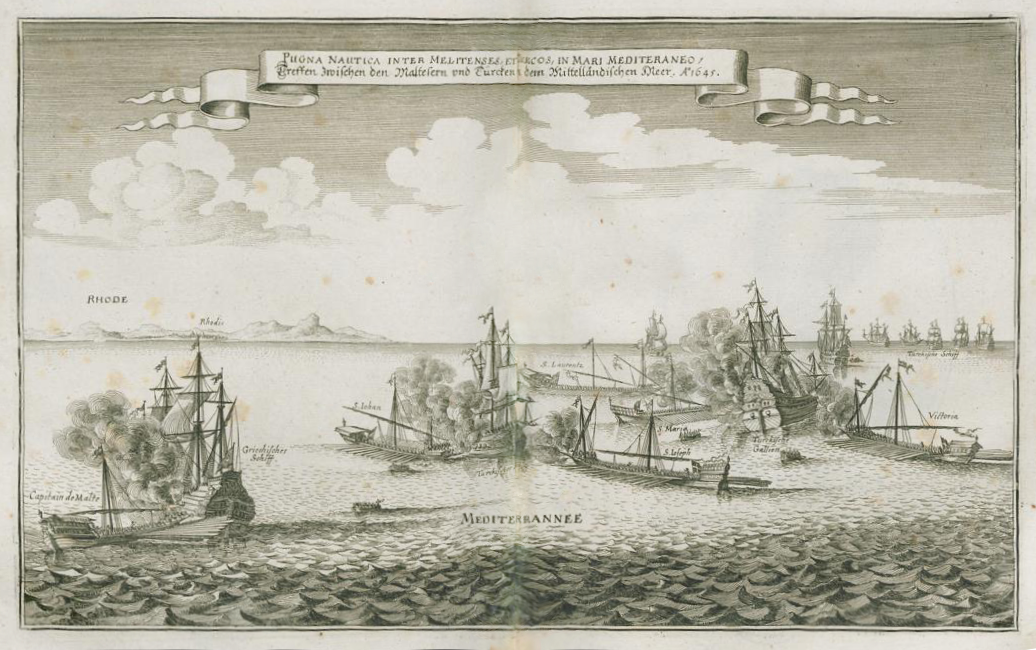 A depiction of a sea battle between a convoy of Turkish ships sailing from Constantinople to Alexandria and carrying a number of pilgrims bound for Mecca, which were attacked by the Knights Hospitaller of Malta during the Action of 28 September 1644. (The year "1645" in the image caption appears to be a mistake.) On the left, a galley labelled "Capitaine de Malte" ("Maltese captain") engages a vessel labelled "Griechisches Schiff" ("Greek ship"). In the middle, two ships labelled "S. Iohann" and "S. Ioseph" engage another Turkish sailing vessel labelled "Türckisches Schiff" ("Turkish ship"); and on the right, three galleys labelled "S. Laurentz", "S. Maria" and "Victoria" surround a ship labelled "Türckische Gallion" ("Turkish galleon"). In the distance on the right are more vessels labelled "Türckische Schiff" ("Turkish ship[s]"), while on the left the land is marked "Rhode" in German and "Rhodis" in Latin ("Rhodes"). The sea is labelled "Mediterrannee".